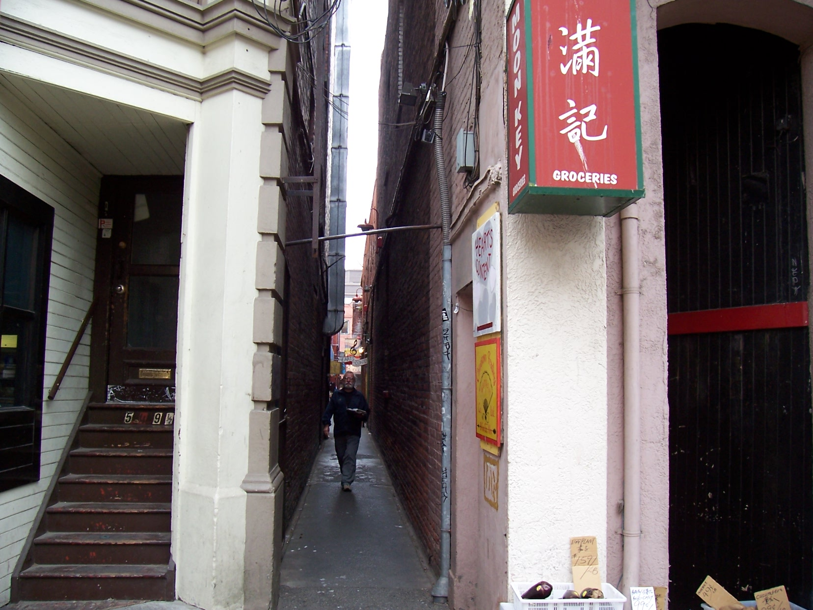 Fan Tan Alley in Chinatown, Victoria, British Columbia, Canada. The Yee King Yum Building at left and the Sheam & Lee Building at right are designated heritage sites.